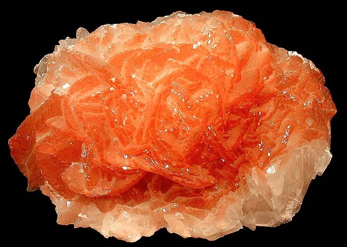 Calcite, Hematite Locality: Tsumeb Mine (Tsumcorp Mine), Tsumeb, Otjikoto (Oshikoto) Region, Namibia (Locality at ) Size: 25.2 x 19.5 x 9.4 cm. A large hemispherical aggregate of solid calcite, with rich, red inclusions of hematite in the tops of all the crystals. Ex. Willy Israel Collection.